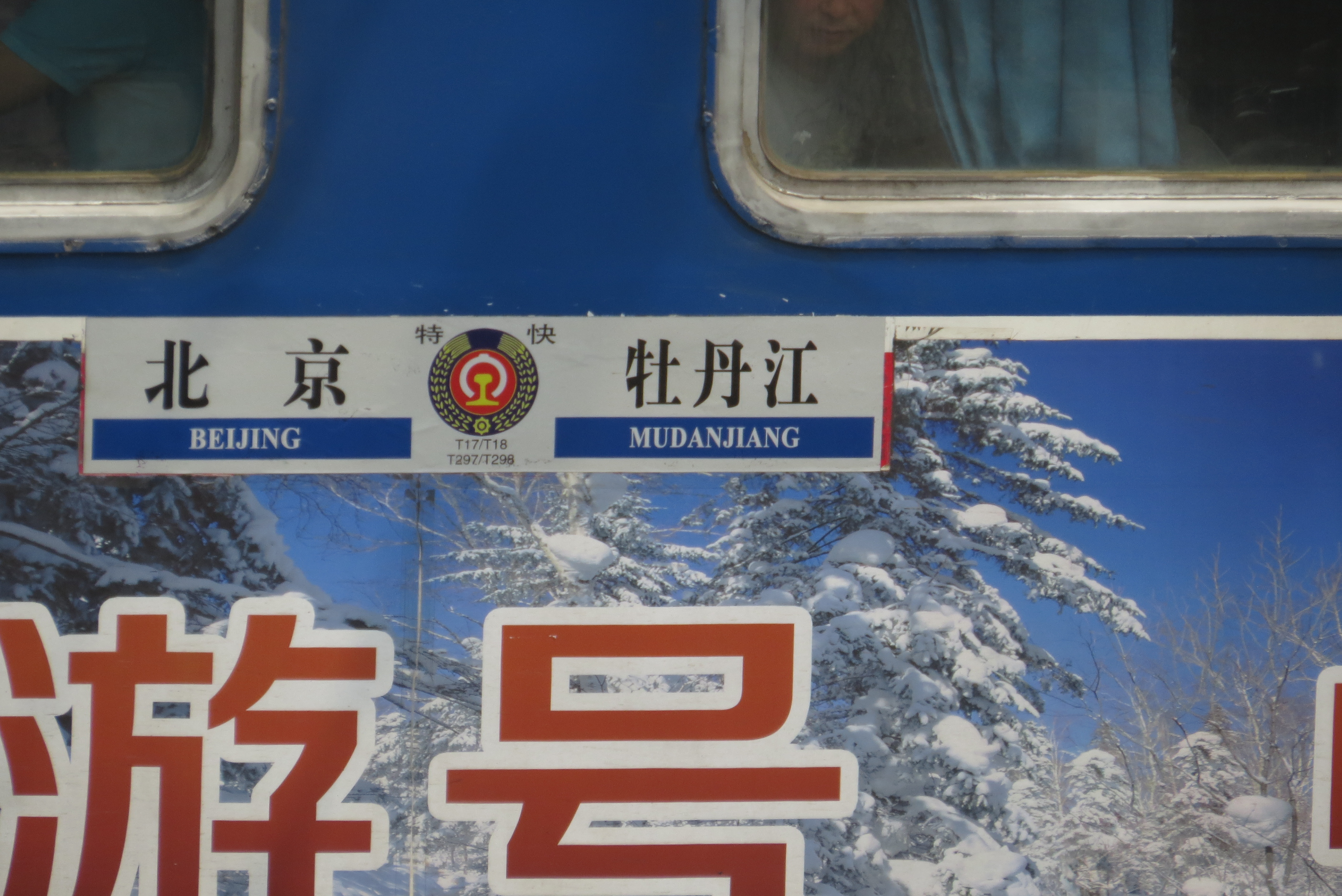 T298 from Mudanjiang. In fact, T18 was originally from Harbin, but it extended to Mudanjiang on May 20.